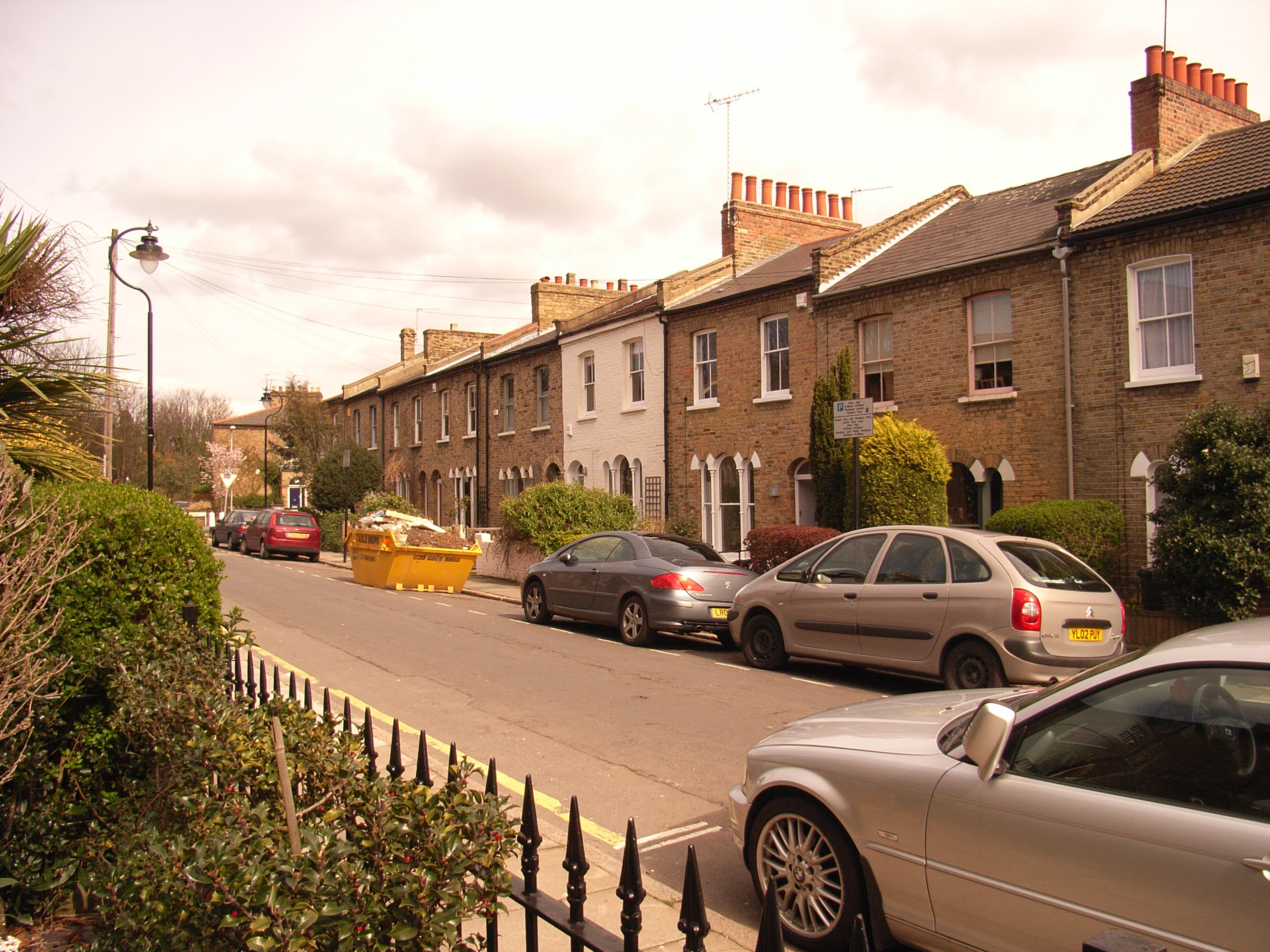 Mount Pleasant Crescent, Stroud Green, London, N4.